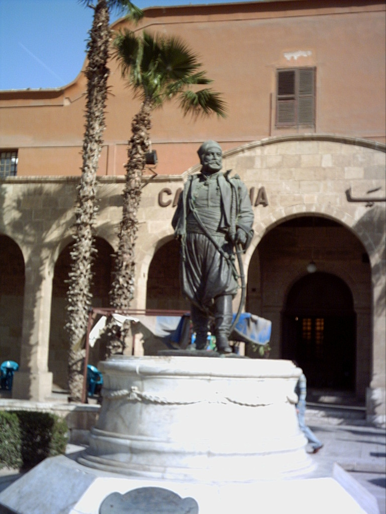 The Statue of Suleiman Pasha in The Military Museum of Egypt, the Citadel, Cairo.